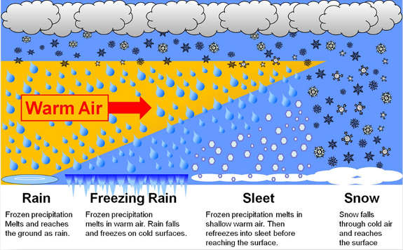 A graphic depicting the formation of different varities of precipitation by type.